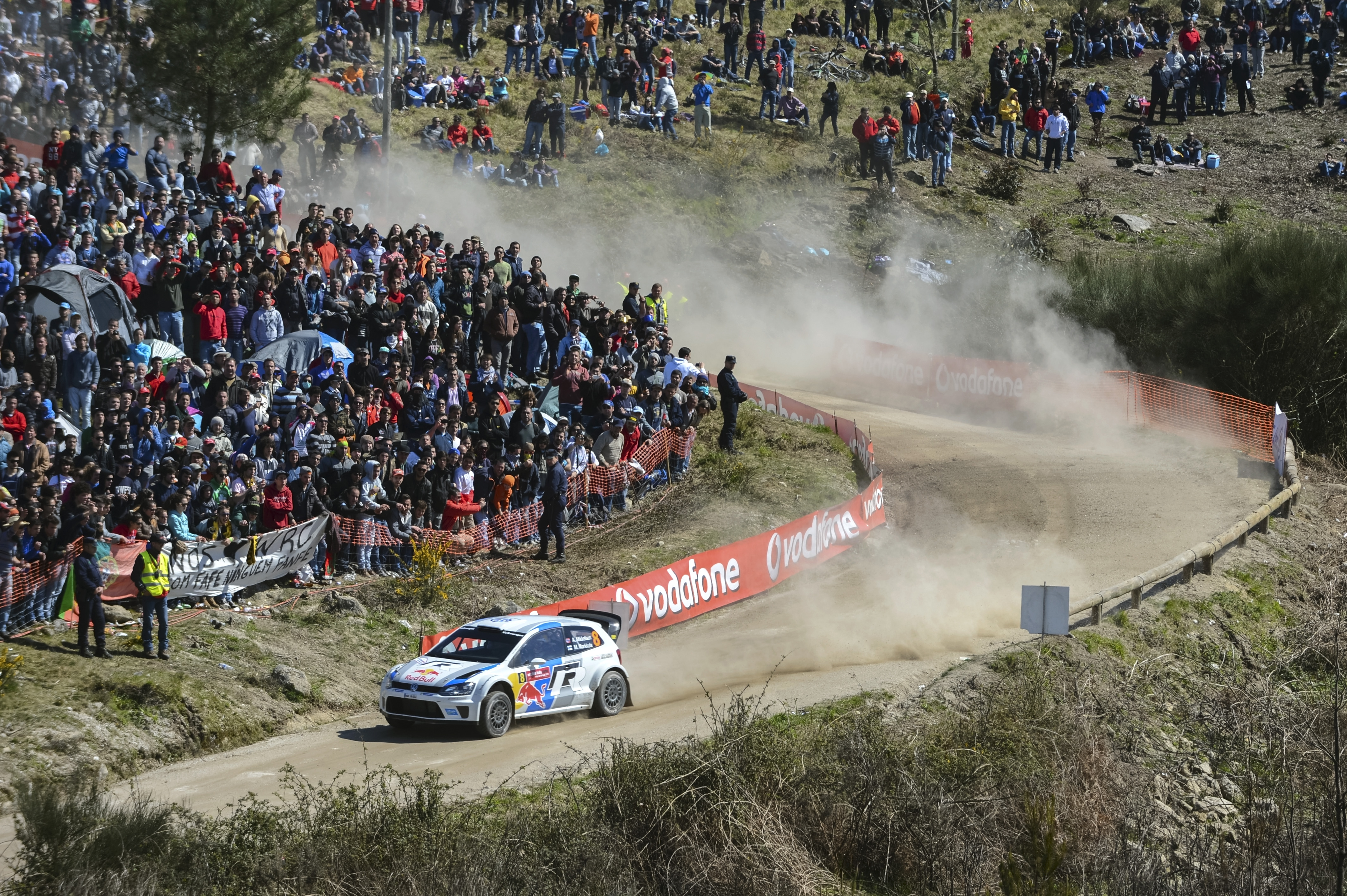 Andreas Mikkelsen and co-driver Mikko Markkula in their VW Polo R WRC at the 2013 Rally Portugal.